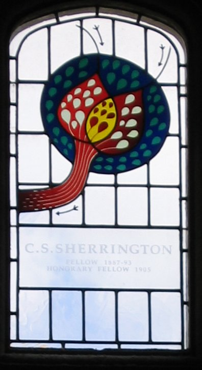 Stained glass window in the dining hall of Gonville and Caius College, in Cambridge (UK), commemorating Charles Scott Sherrington, a British scientist known for his contributions to physiology and neuroscience and a fellow of the college. The text on the windows reads: C.S. SHERRINGTON; FELLO 1887–1893; HONORARY FELLOW 1905.